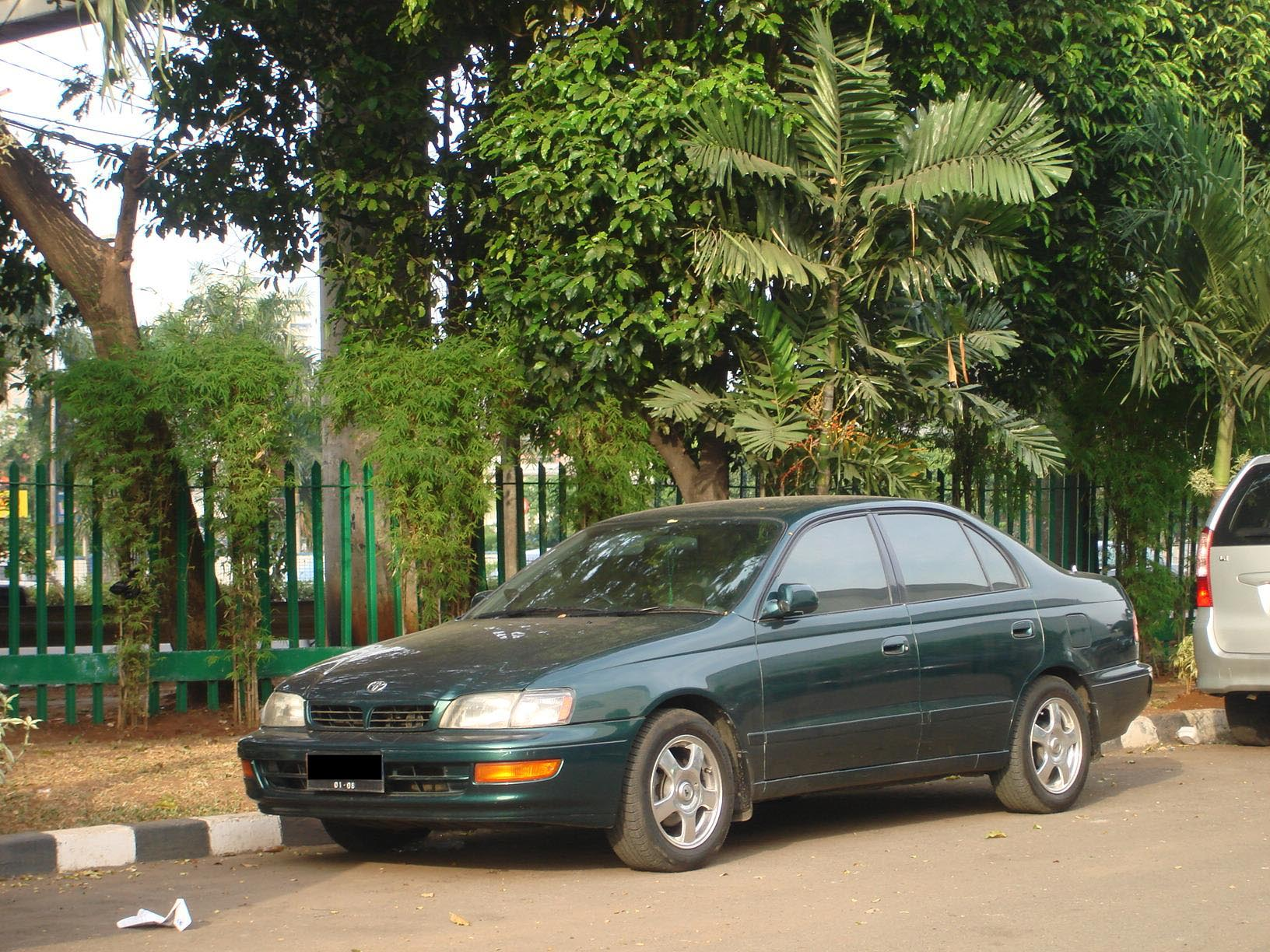 1997 Toyota Corona Absolute 2.0 G (ST191)